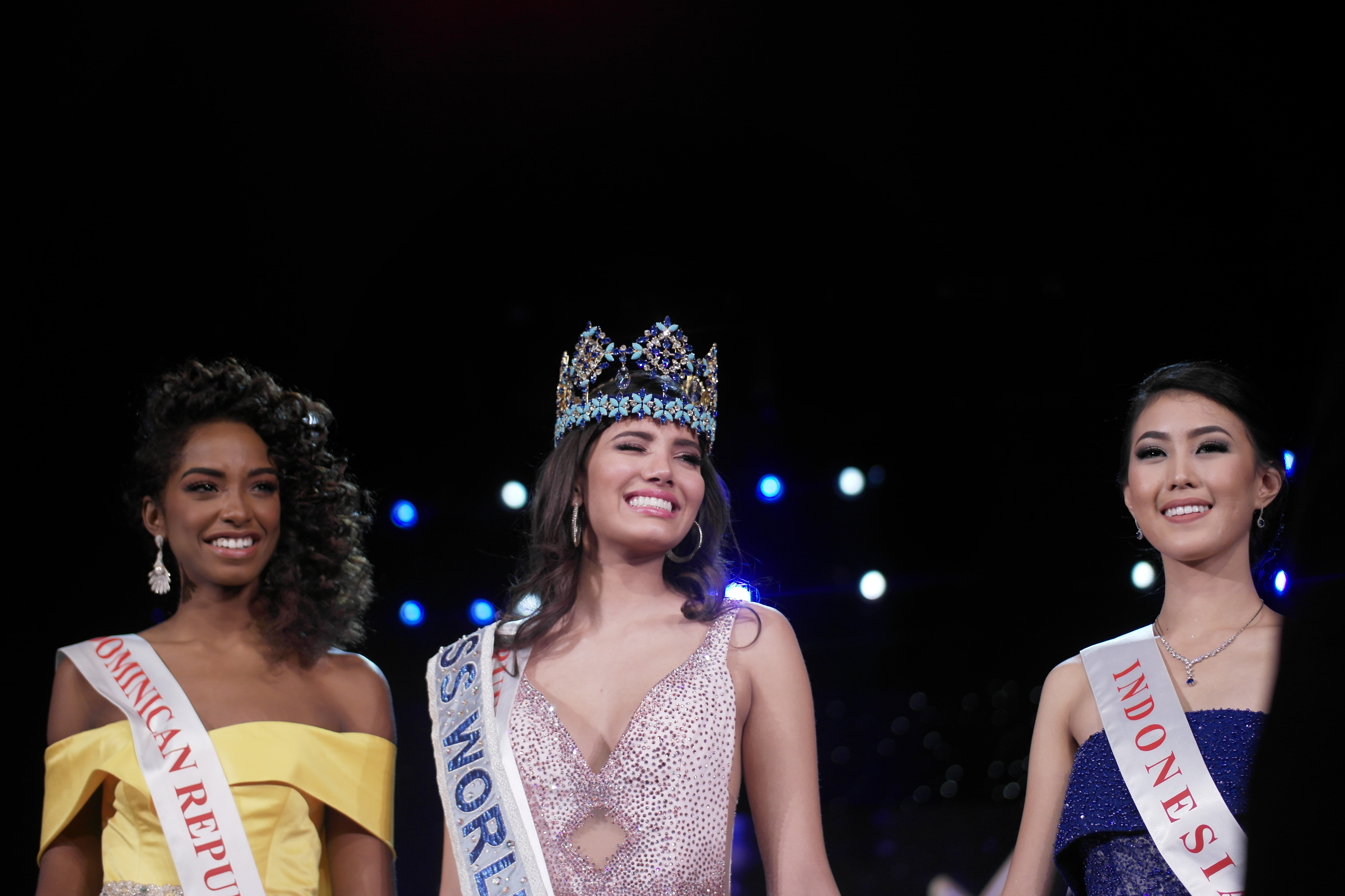 Miss World 2016 at MGM Grand, Washington DC